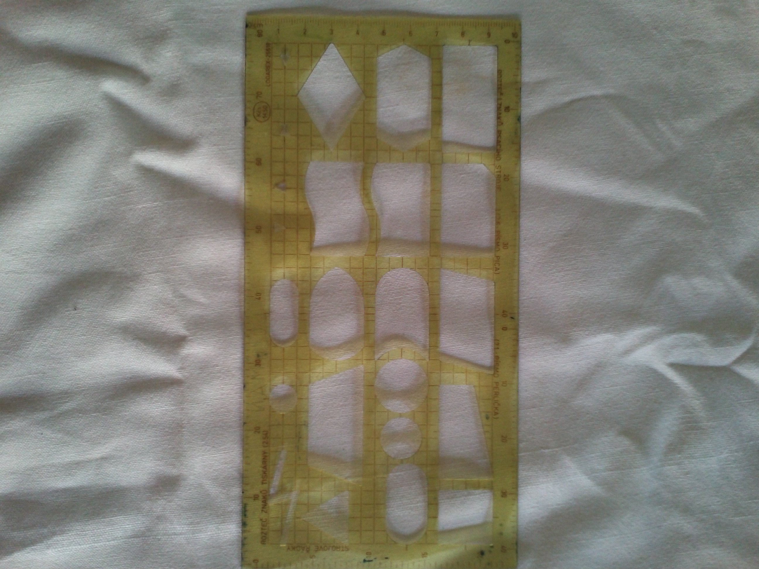 Technical ruler Logarex-25518 for flowcharts.